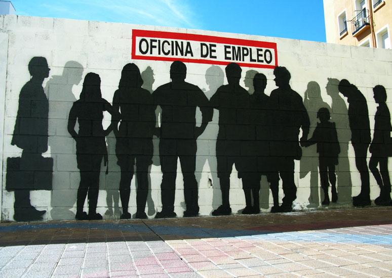 A social and political stencil where Above addressed the Eurozone crisis and more specifically Spain's unemployment crisis. Zaragoza, Spain 2012